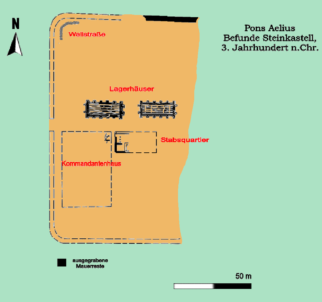 Plan of the stone fort Pons Aelius / Newcastle upon Tyne (GB), 2nd-3rd Century AD.